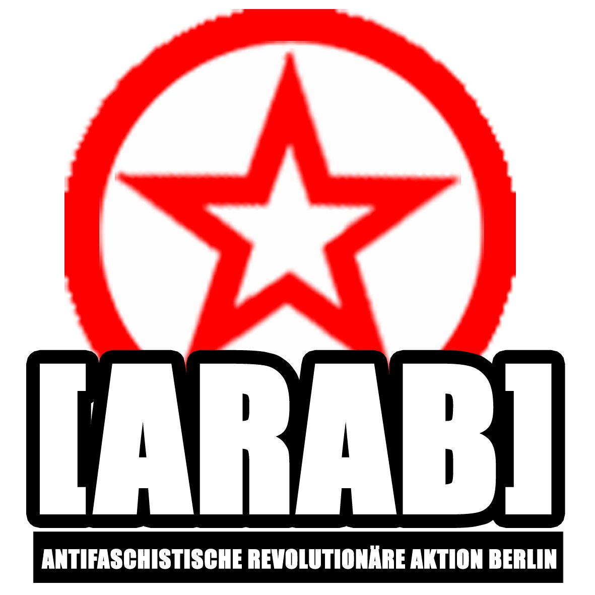 Emblem of the Antifascist Revolutionary Action Berlin